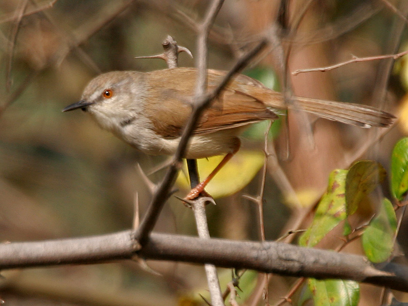 Grey-breasted Prinia Prinia hodgsonii near Hyderabad, India.